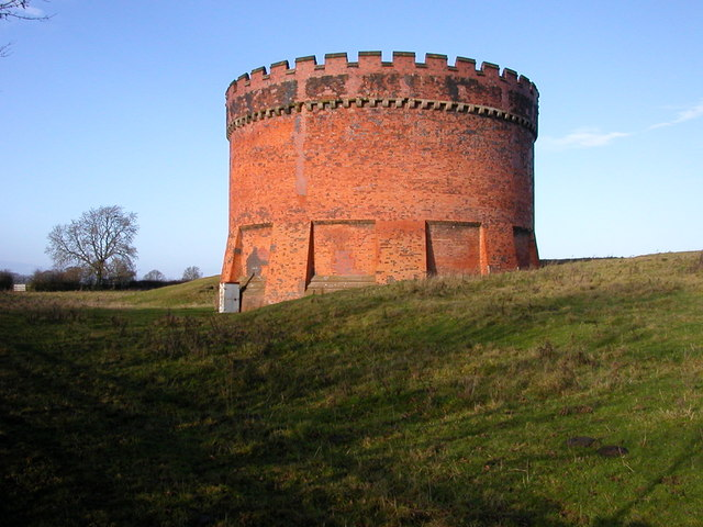 Kilsby Tunnel Airshaft. One of the larger type, just to the north of the A5.